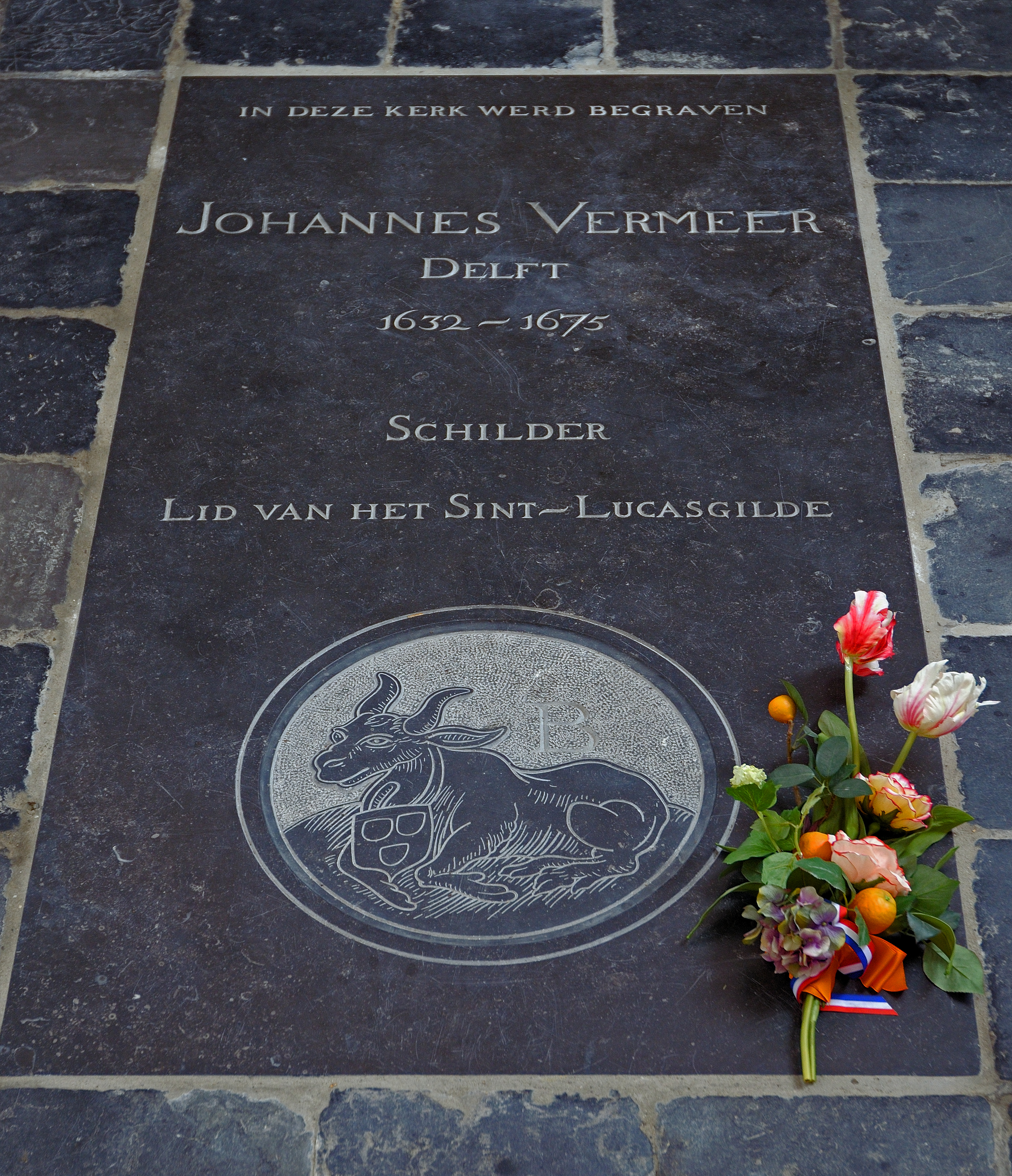 Possible burial place (2007) of Johannes Vermeer in Oude Kerk. Delft, Netherlands